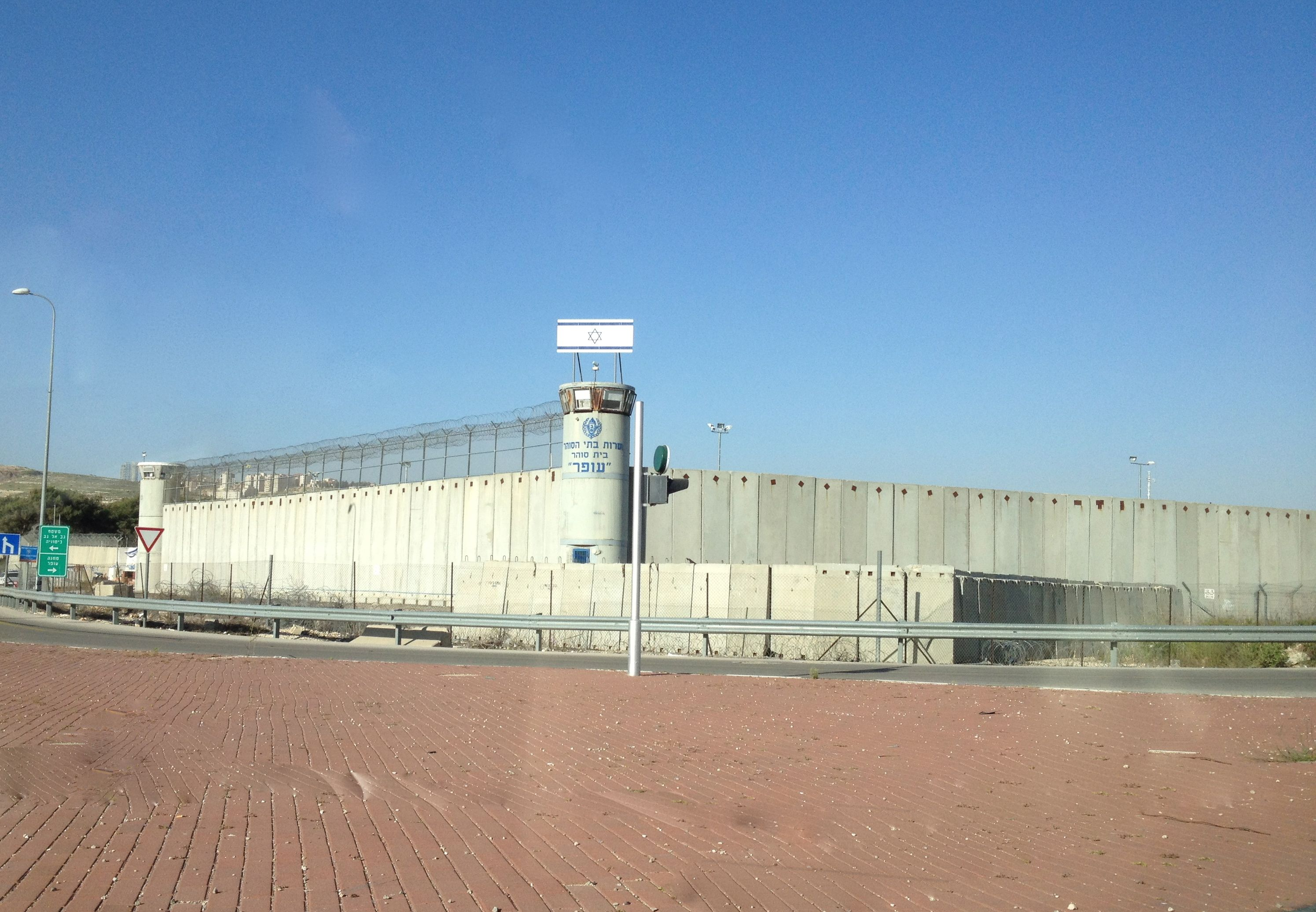 Ofer Prison near Jerusalem